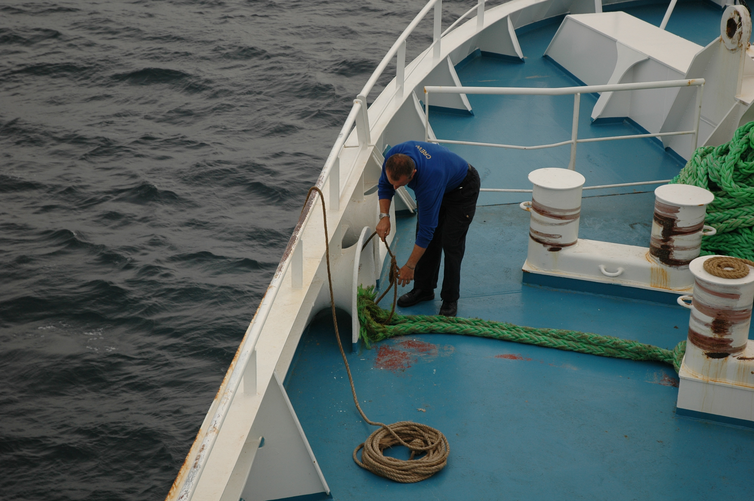 Mooring of the Gozo ferry in the habour of Ċirkewwa, Malta